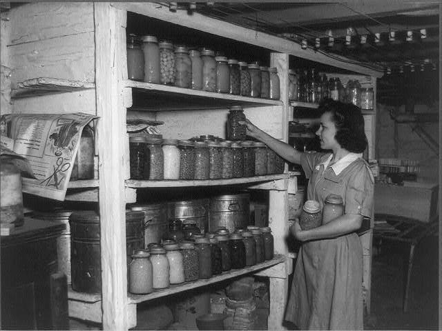 Photograph of 4-H Club member storing food grown in her garden, Rockbridge County, Virginia. Photograph by the Extension Service of the U.S. Department of Agriculture, Prints and Photographs Division, Library of Congress, Washington, D. C. [1]